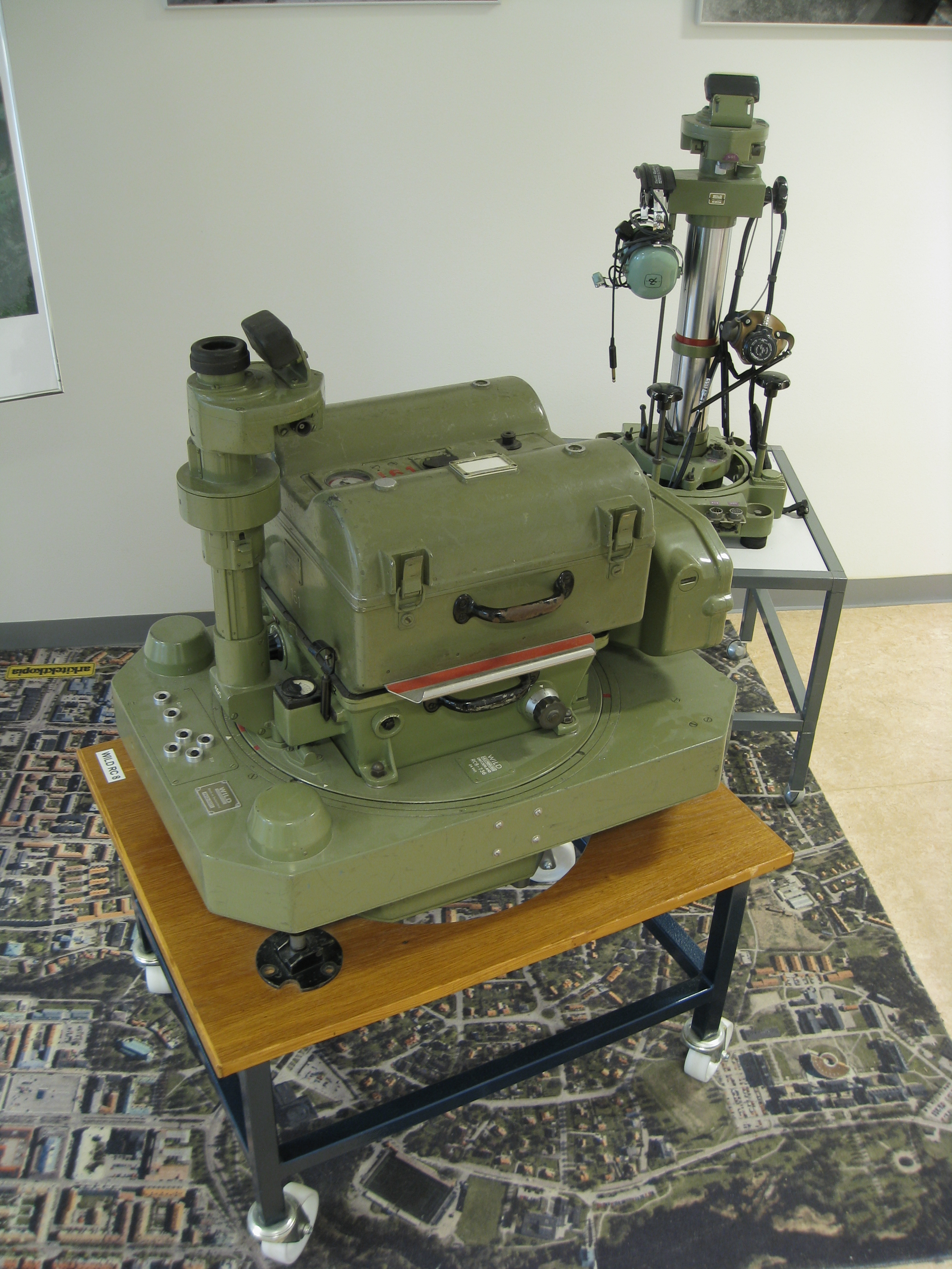 Aerial camera for vertical images, used by Swedish "Lantmäteriet", the national mapping agency.